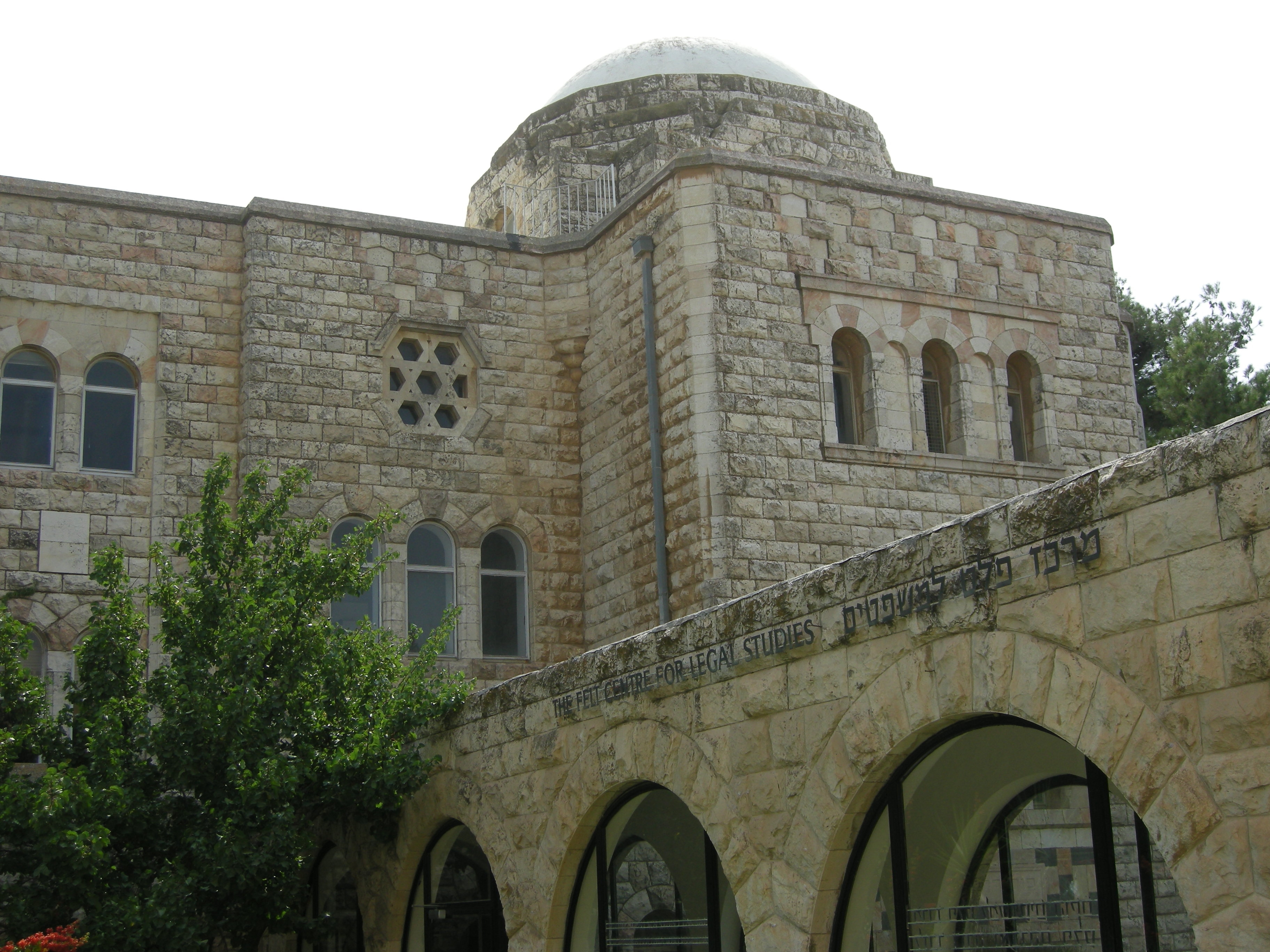 Mount Scopus